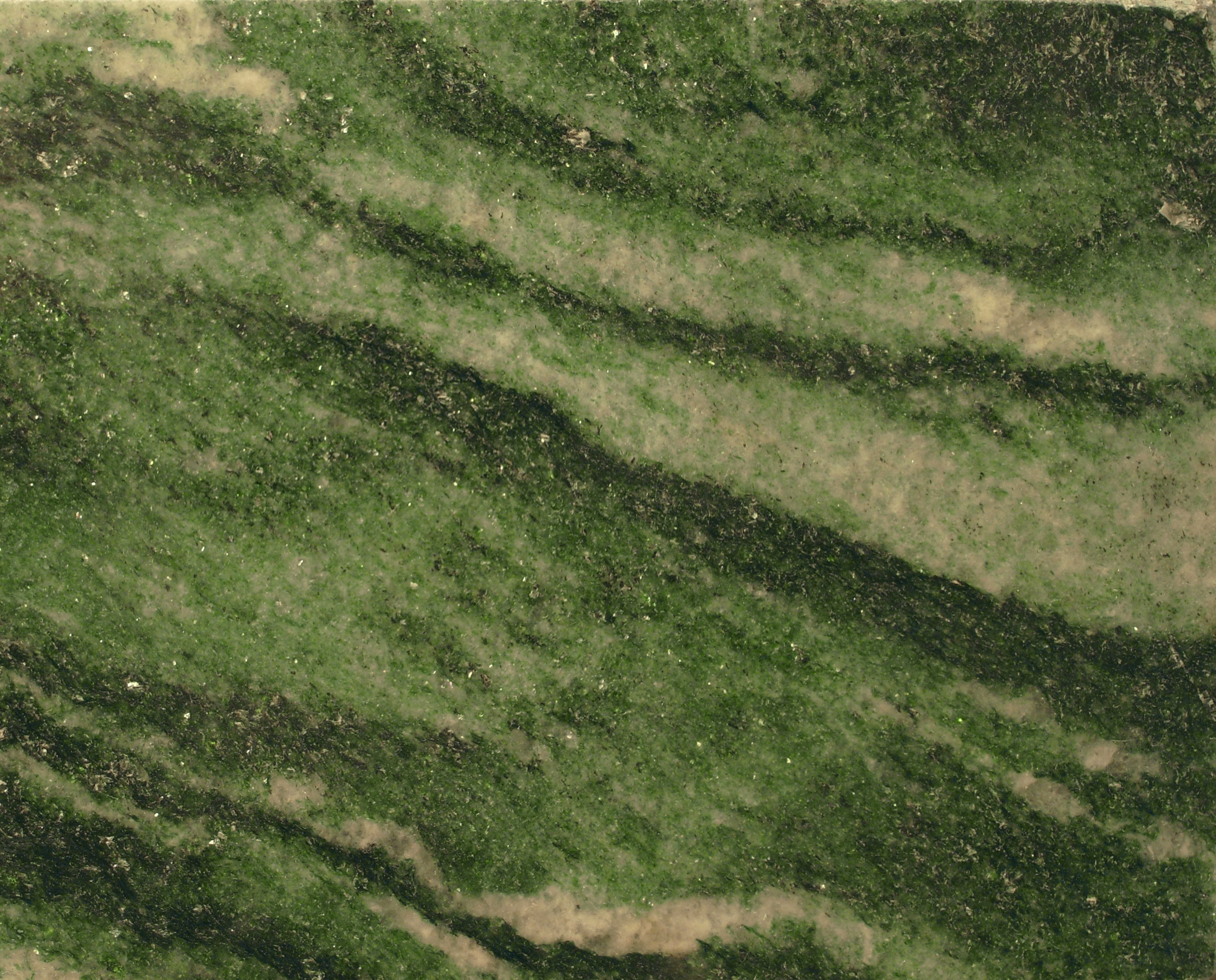 quartzite MASI (Province Finnmark, Norway) size 13,0 x 10,5 cm